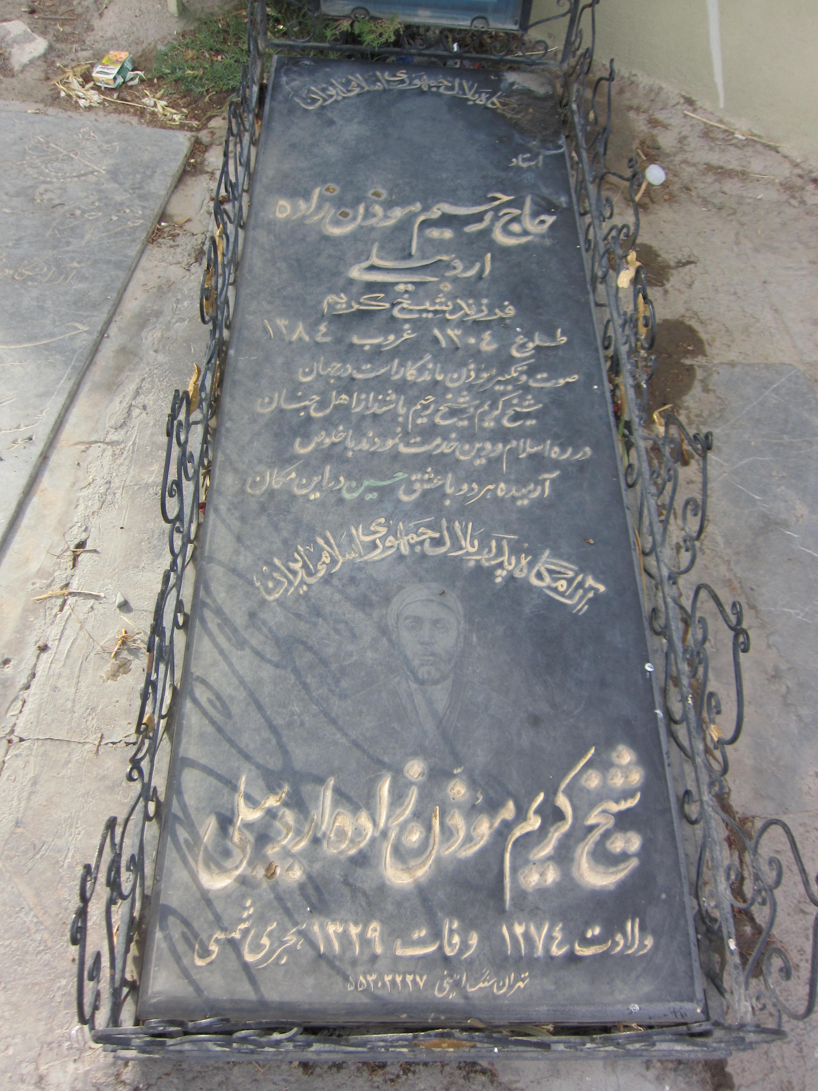 The grave of Rahim Moazzen Zadeh Ardabili at Ibn Babawayh cemetery, Rey